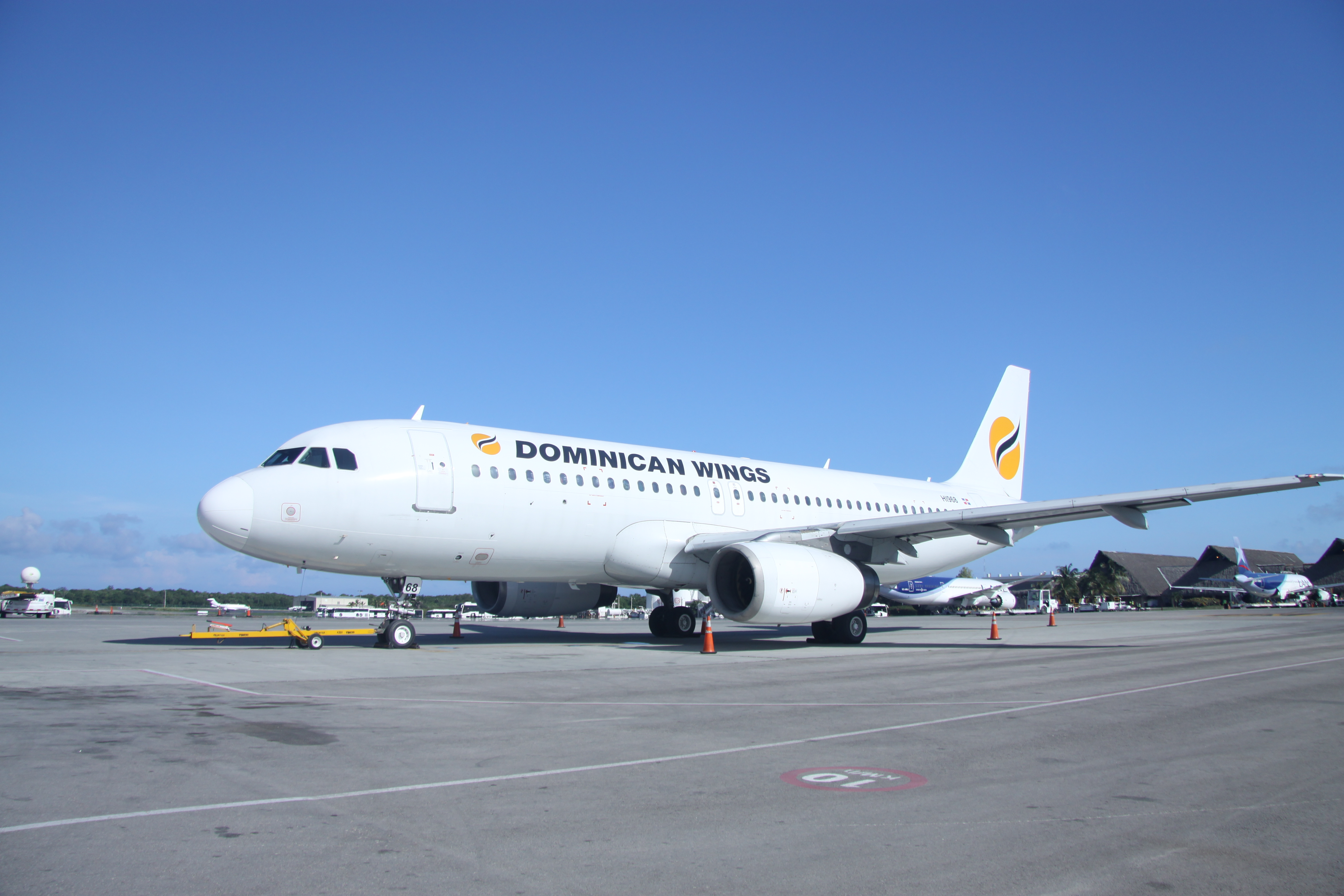 Fleet